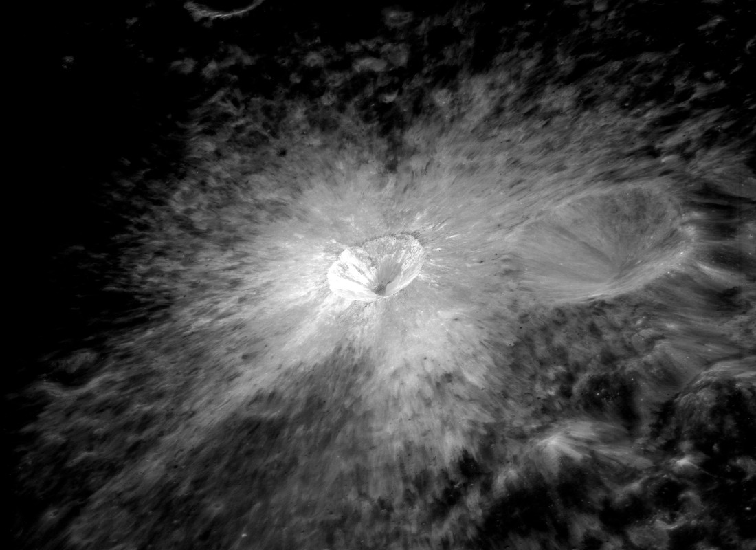 Oblique view of Censorinus crater, facing north, on the moon. Taken by Apollo 16 panoramic camera.